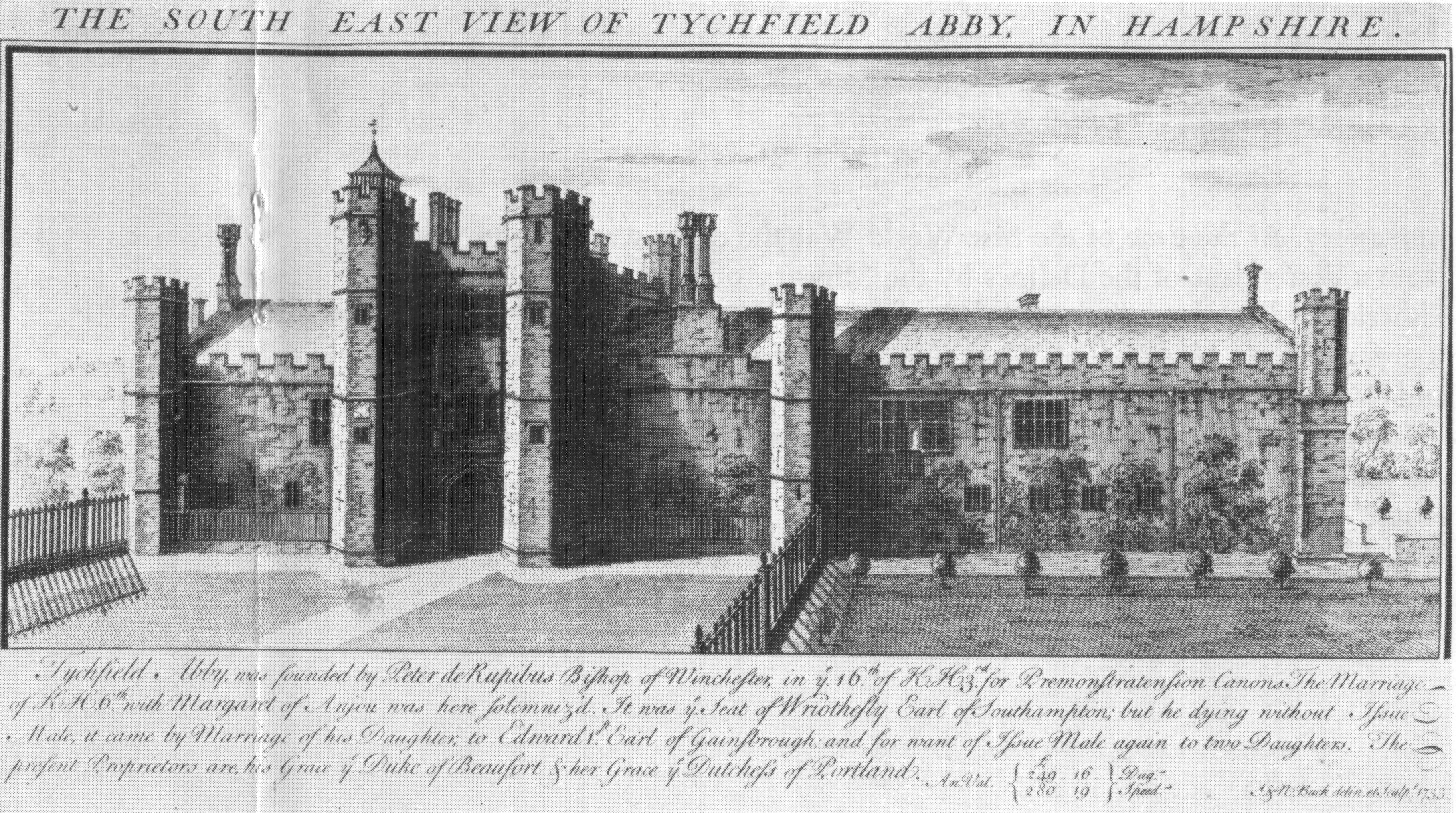 After the Dissolution, the abbey was converted into a mansion, known as Place House, seen here as it looked in 1733.